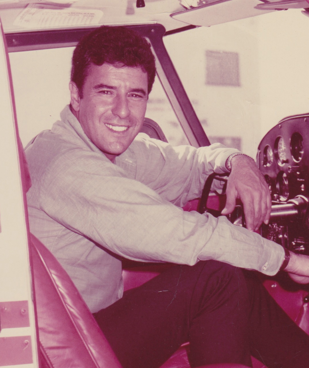 Nico Minardos flying private plane